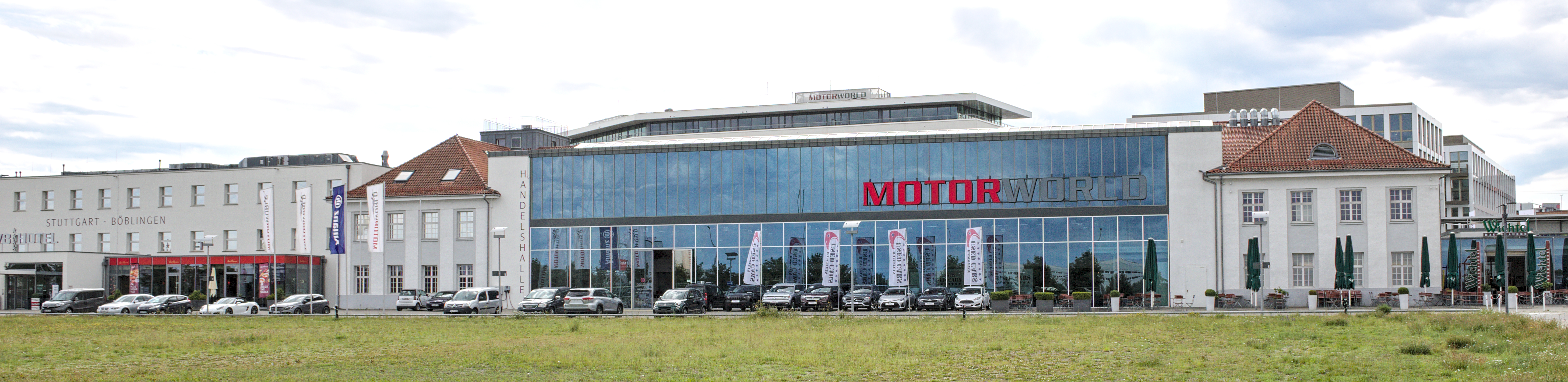 Motorworld_Region_Stuttgart in Böblingen